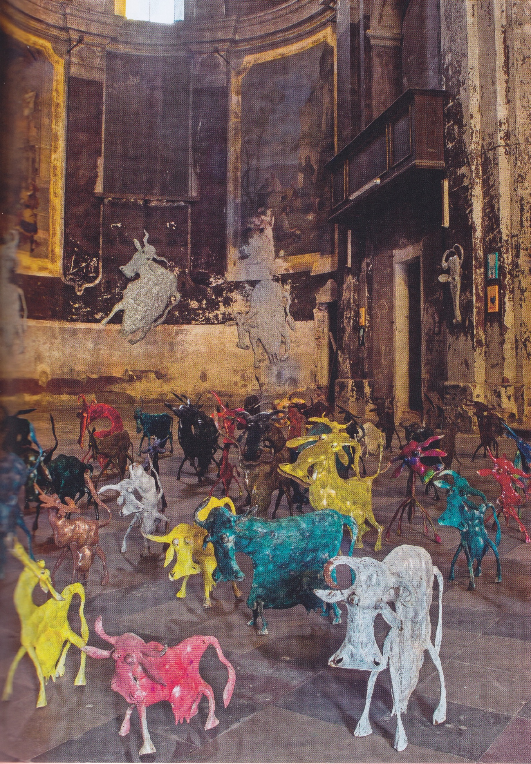 Tamburelli's installation «Mandrie Matte», Fossano (CN), ex chiesa di Sant'Antonio, June 13 2015